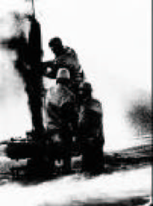 "Red Adair, legendary oil field fire fighter, extinguishes a well fire at Elk Hills, October 27, 1977."